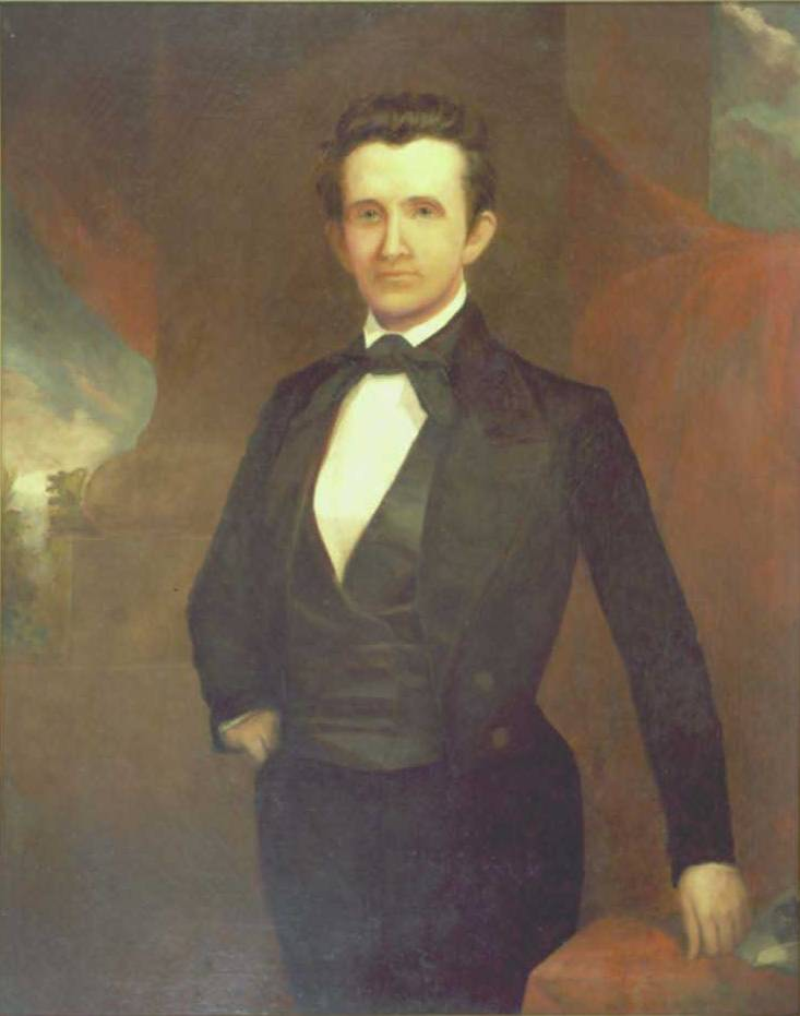 Portrait of Tennessee governor and U.S. Minister to Russia, Neill S. Brown (1810-1886).